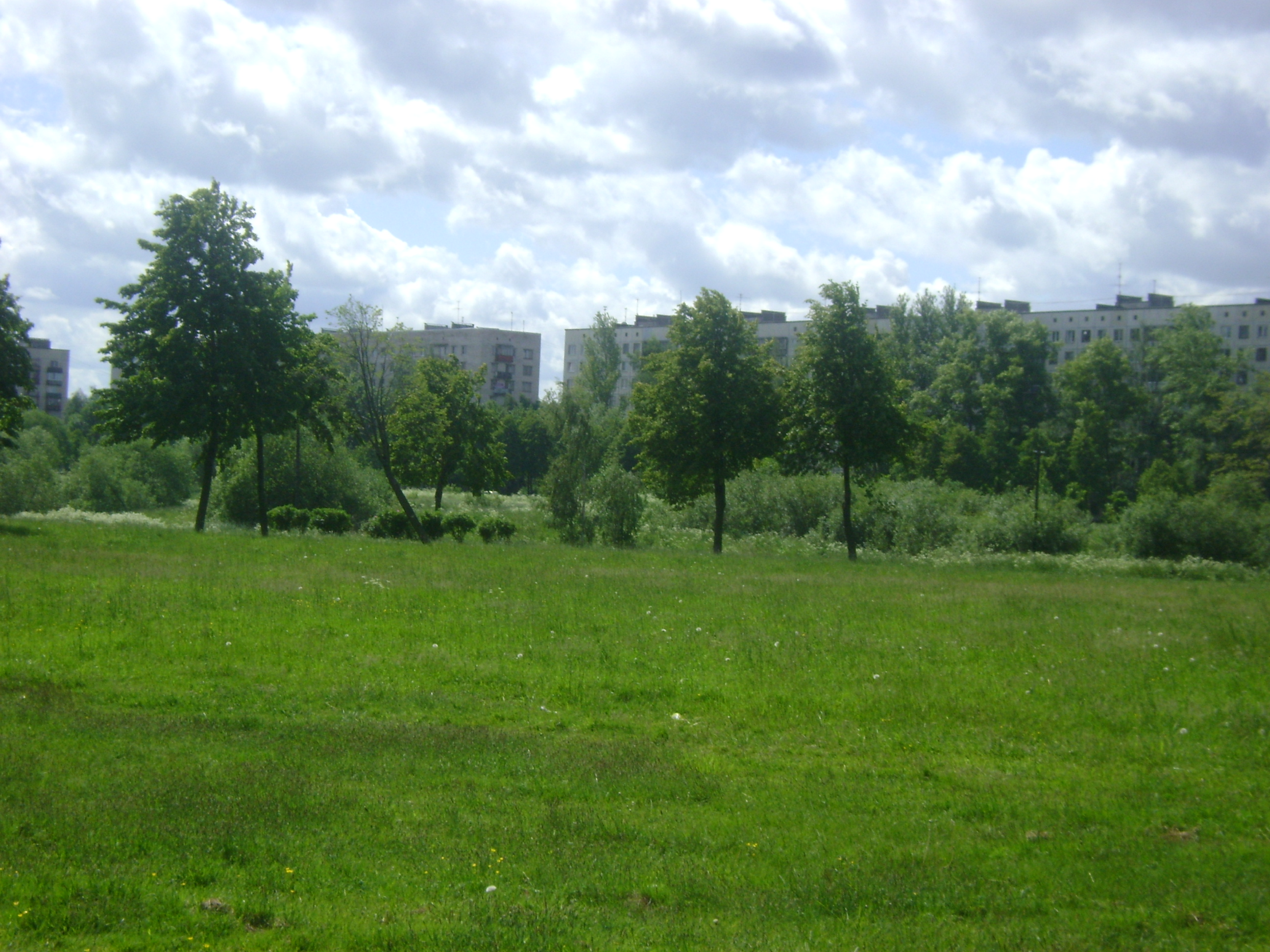 The view from the park